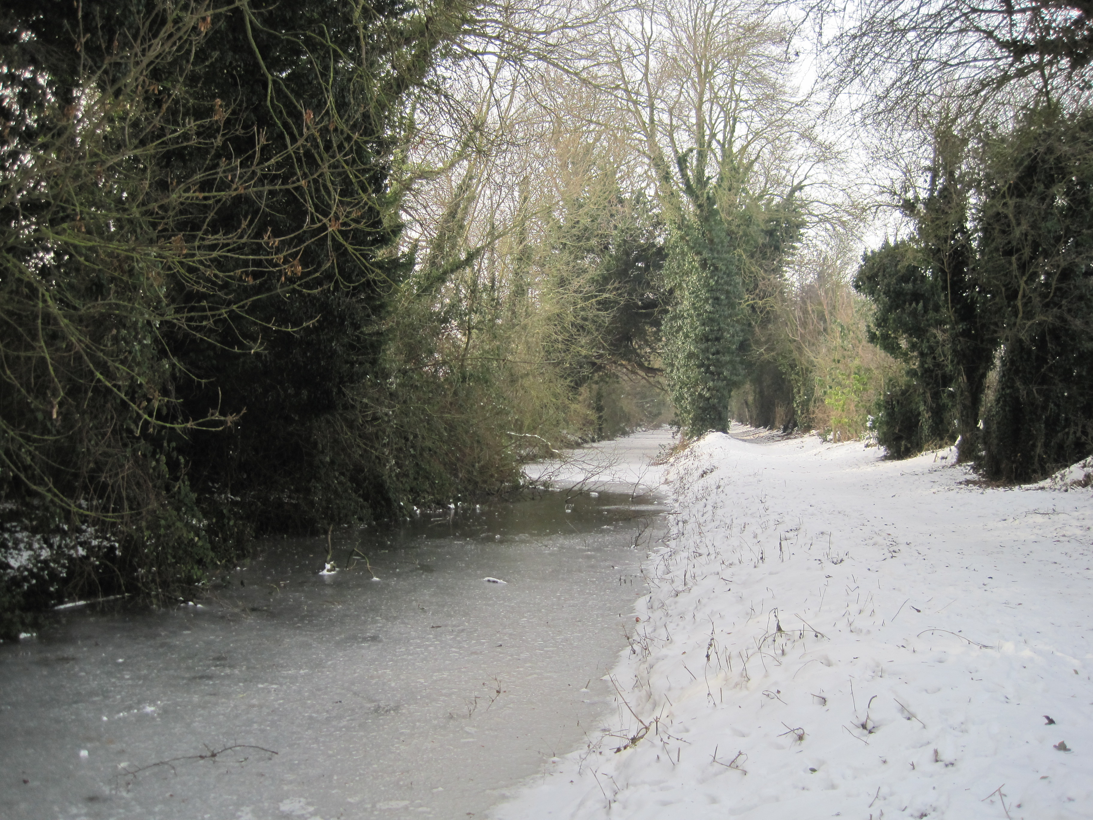 The abandoned Wilts & Berks Canal at Grove, Oxfordshire (formerly Berkshire)